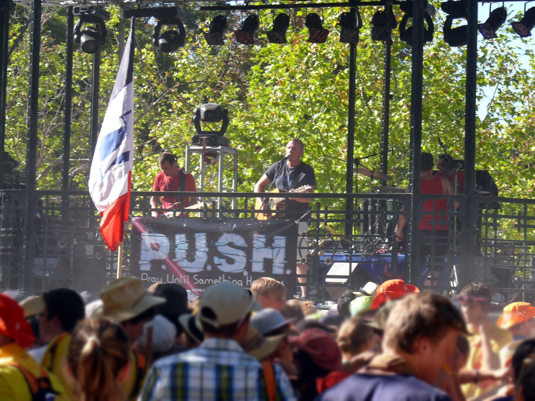 Concert of the group P.U.S.H. (Pray Until Something Happens) in Retiro garden (Madrid, Spain) for the World Youth Day 2011.